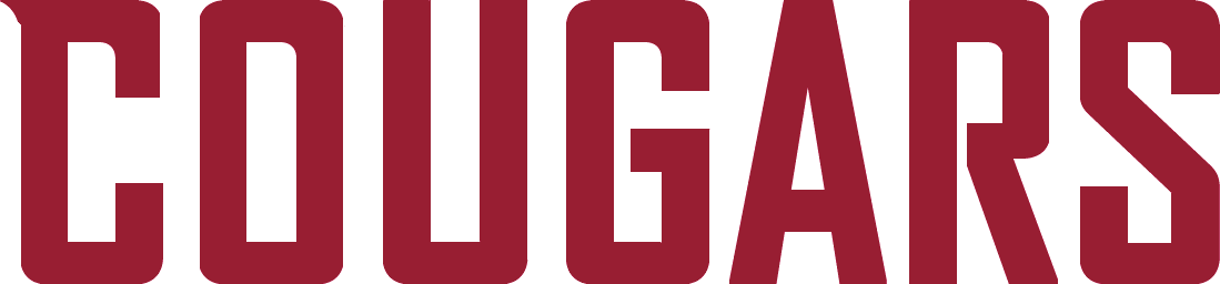 Washington State Cougars Wordmark logo